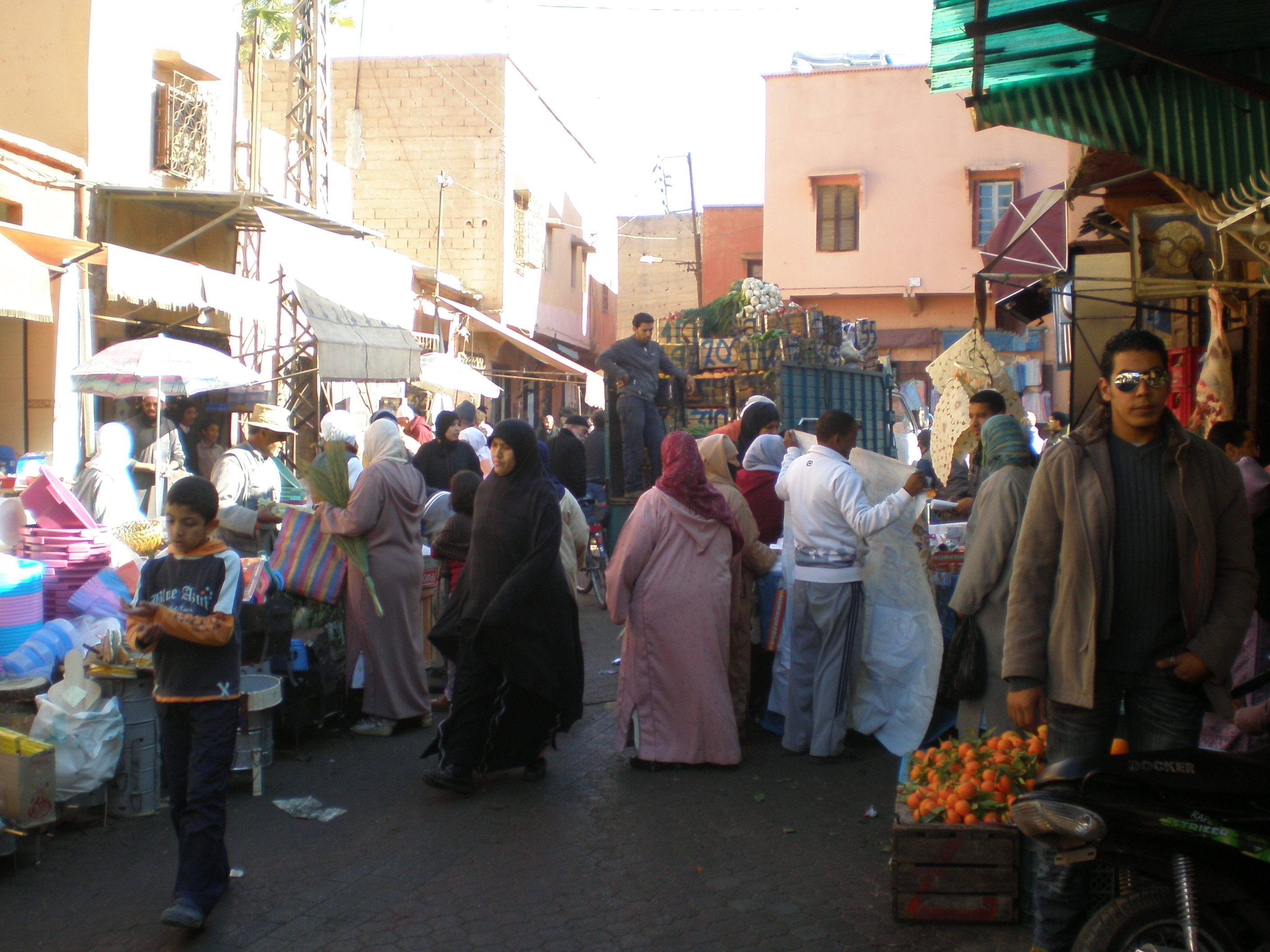 La Kasbah. Marrakech, Morocco